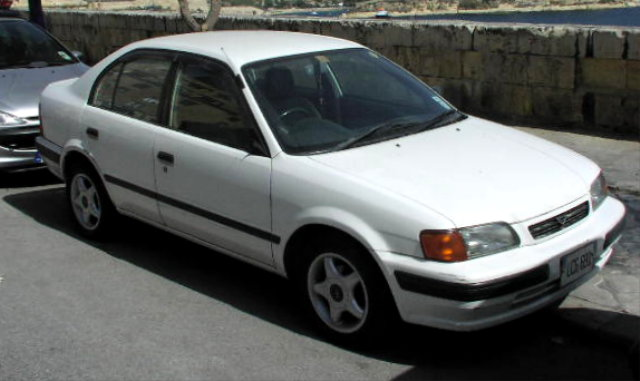 Toyota Tercel 5th Generation